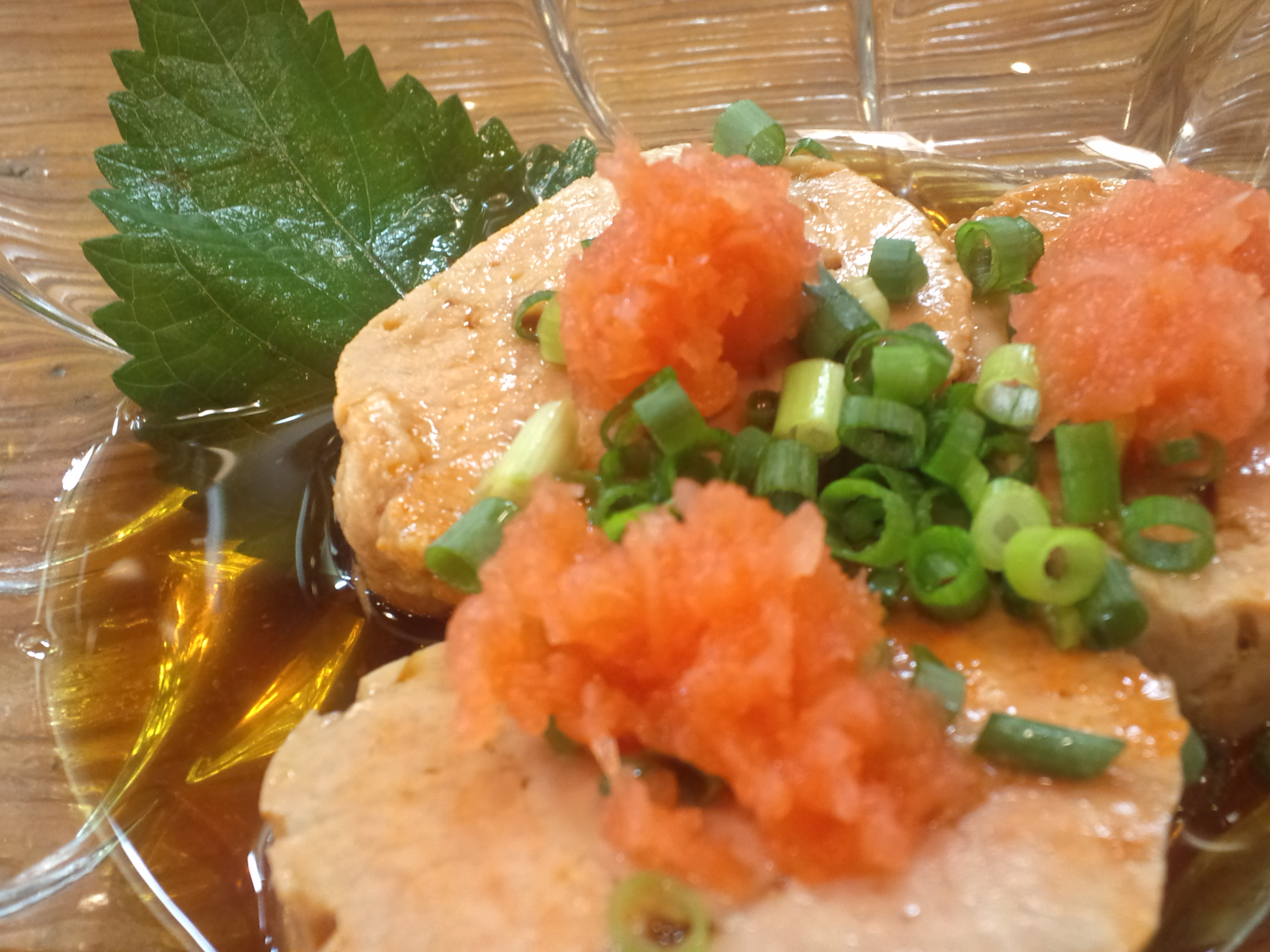 Japanese ANKIMO (Monkfish liver)